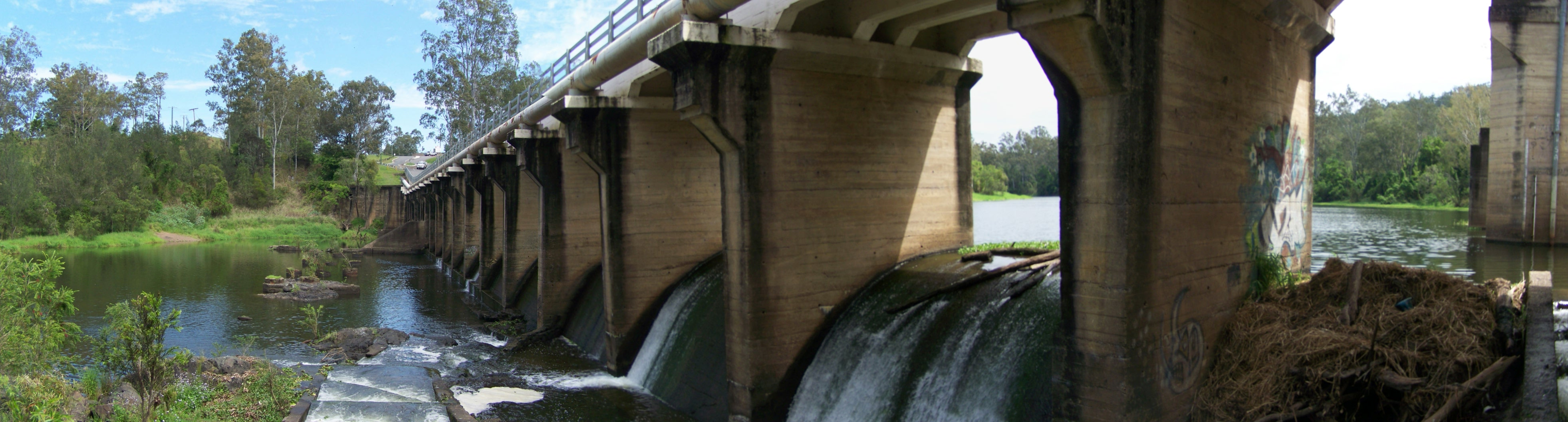 Mt Crosby Weir, Mt Crosby, Queensland. Image features photostitch error and will be replaced soon when I return to the weir with better batteries.